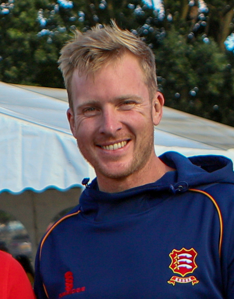 Simon Harmer at the 2019 Essex CCC Benefit Match vs Upminster CC at Upminster Park